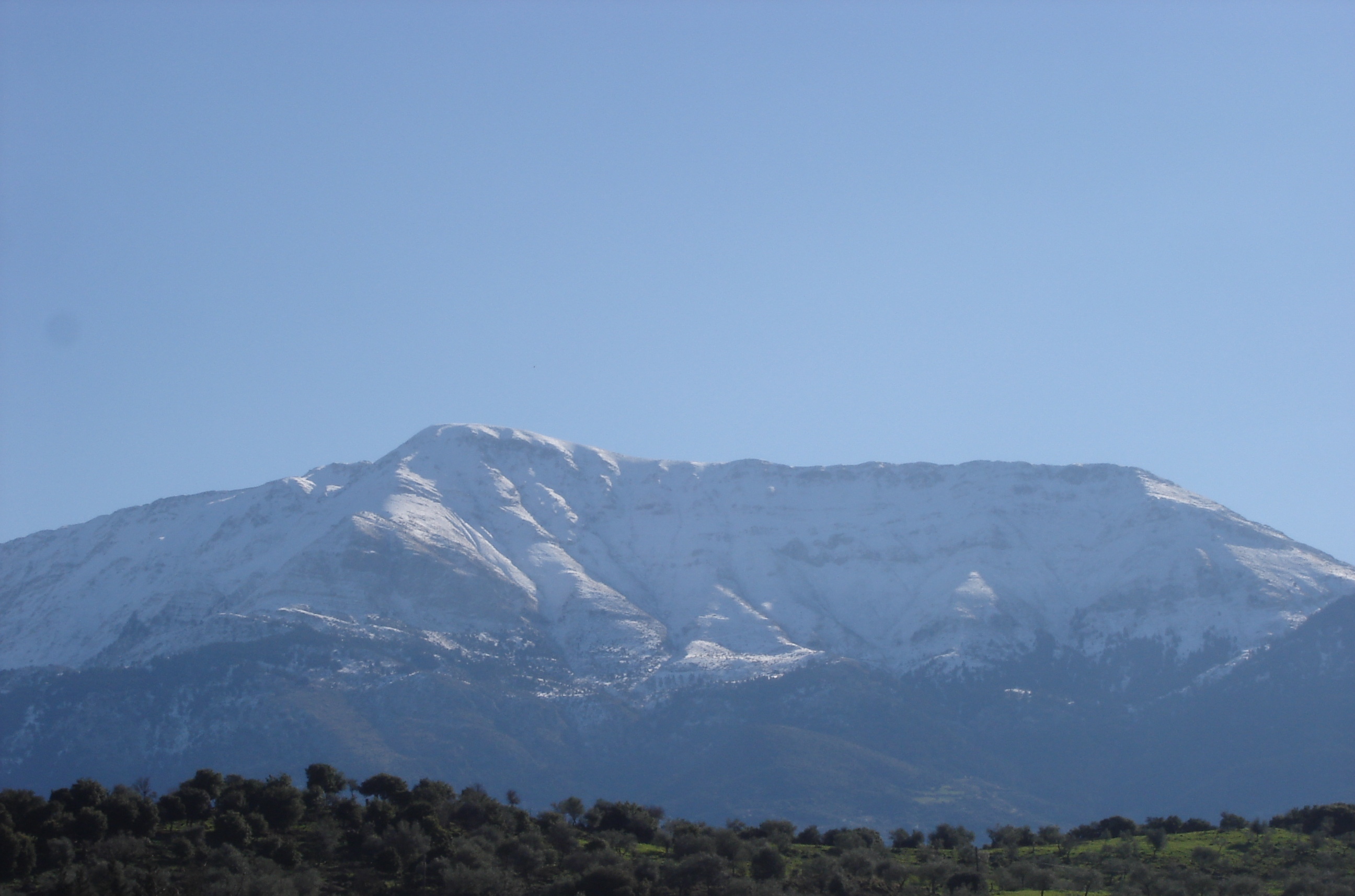 Erymanthos Moudain Greece